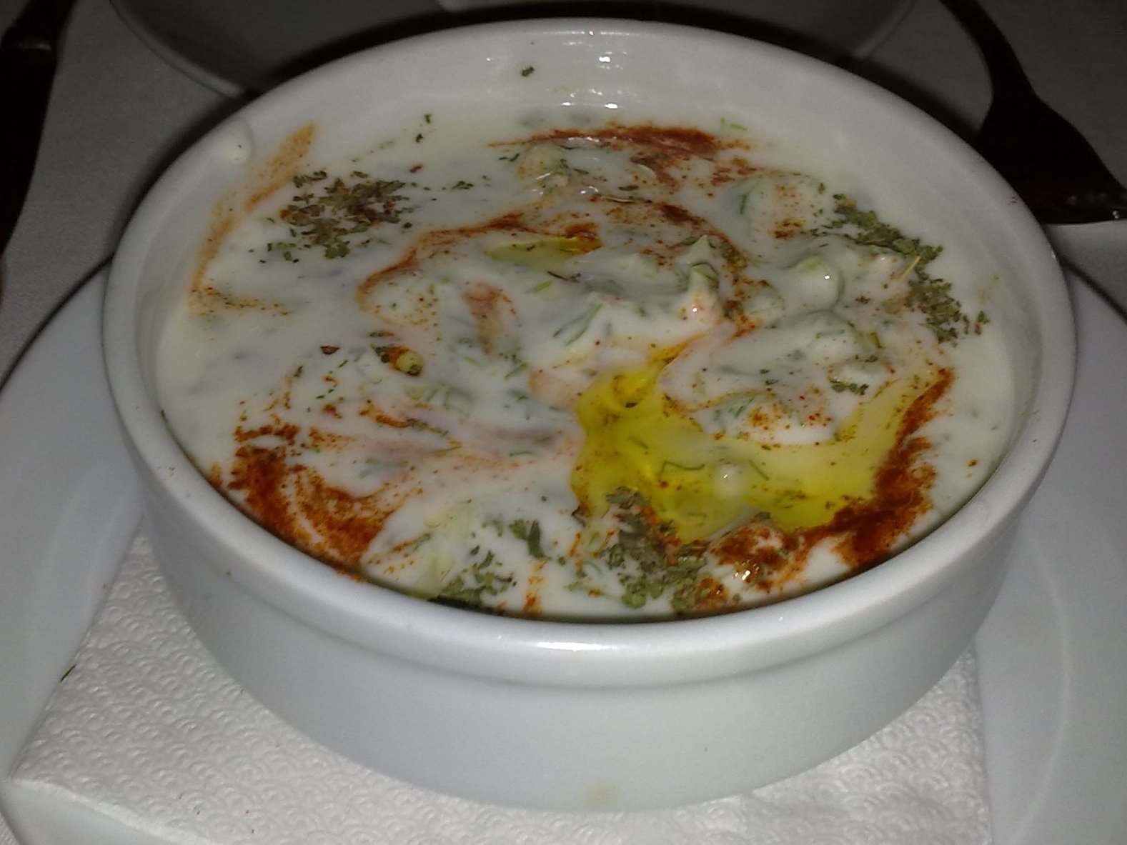 Cacık, a turkish yogurt dish.